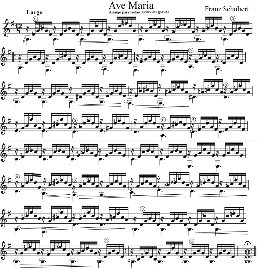 Arranged for acoustic guitar - accompaniment (harmony)